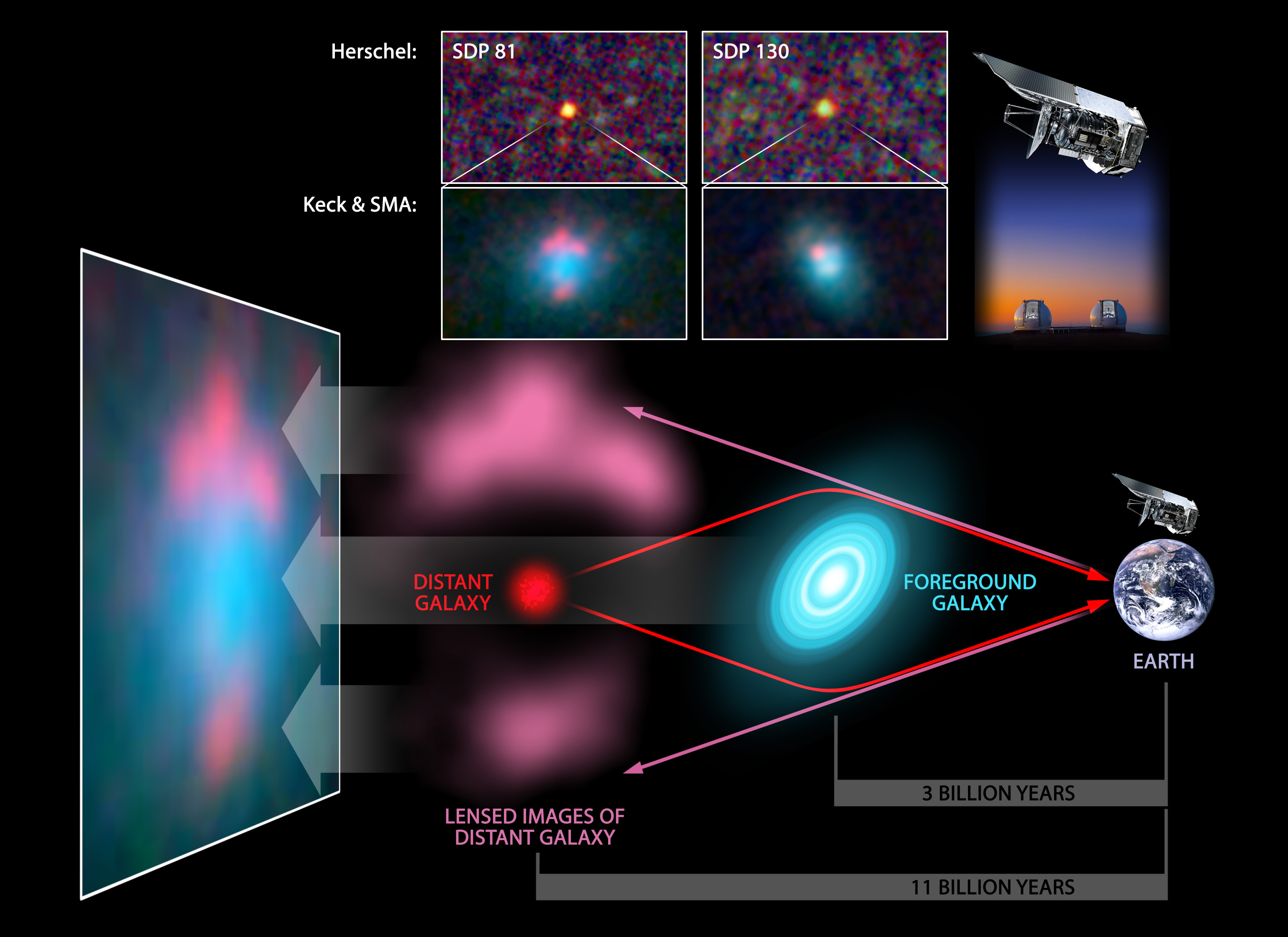 This diagram illustrates a cosmic phenomenon known as gravitational lensing, in which a galaxy magnifies a second, more distant galaxy, making it appear brighter and easier to study. The Herschel Space Observatory turns out to be particularly good at spotting these distant "lensed" galaxies. It has discovered five new ones, and is expected to find many more. In the diagram, the Herschel telescope and Earth are shown to the right. A foreground galaxy is shown in blue, located approximately three billion light-years away (its light took three billion years to reach us). A more distant galaxy, about 11 billion light-years away, is shown in red. The gravity of the foreground galaxy bends the light from the distant one, as shown with the red lines. The pink lines show what we actually see -- a distorted and magnified view of the distant galaxy. An example of a final image taken by ground-based telescopes is at the far left. Herschel is a European Space Agency cornerstone mission, with science instruments provided by consortia of European institutes and with important participation by NASA. NASA's Herschel Project Office is based at NASA's Jet Propulsion Laboratory, Pasadena, Calif. JPL contributed mission-enabling technology for two of Herschel's three science instruments. The NASA Herschel Science Center, part of the Infrared Processing and Analysis Center at the California Institute of Technology in Pasadena, supports the United States astronomical community. Caltech manages JPL for NASA.